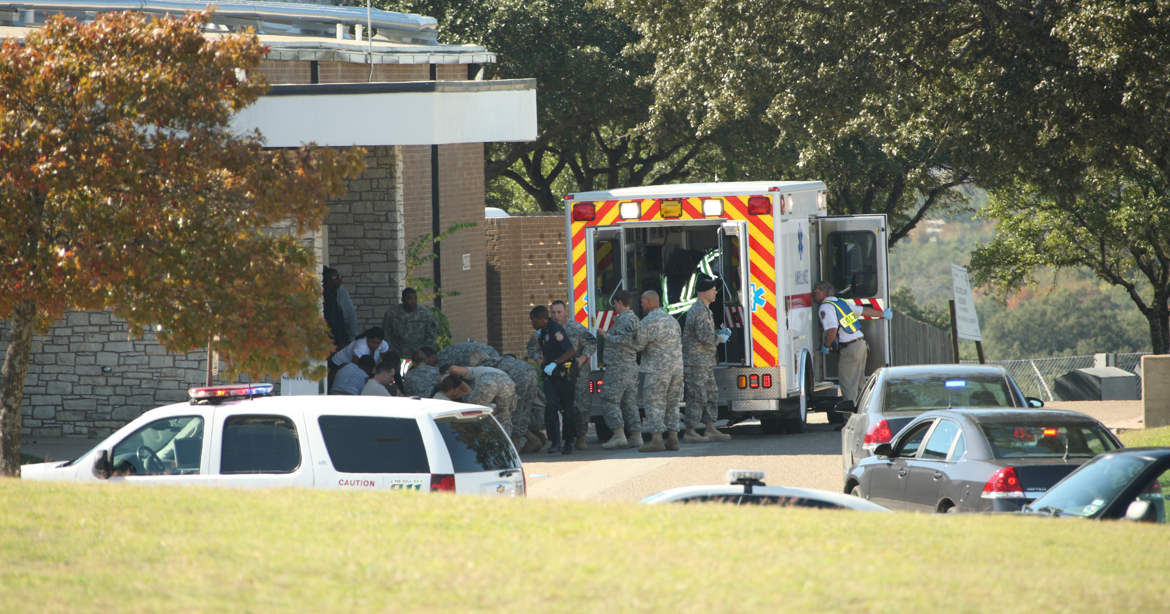 First responders prepare the wounded for transport in waiting ambulances outside Fort Hood's Soldier Readiness Processing Center Nov. 5. (U.S. Army photo/Jeramie Sivley) See more at